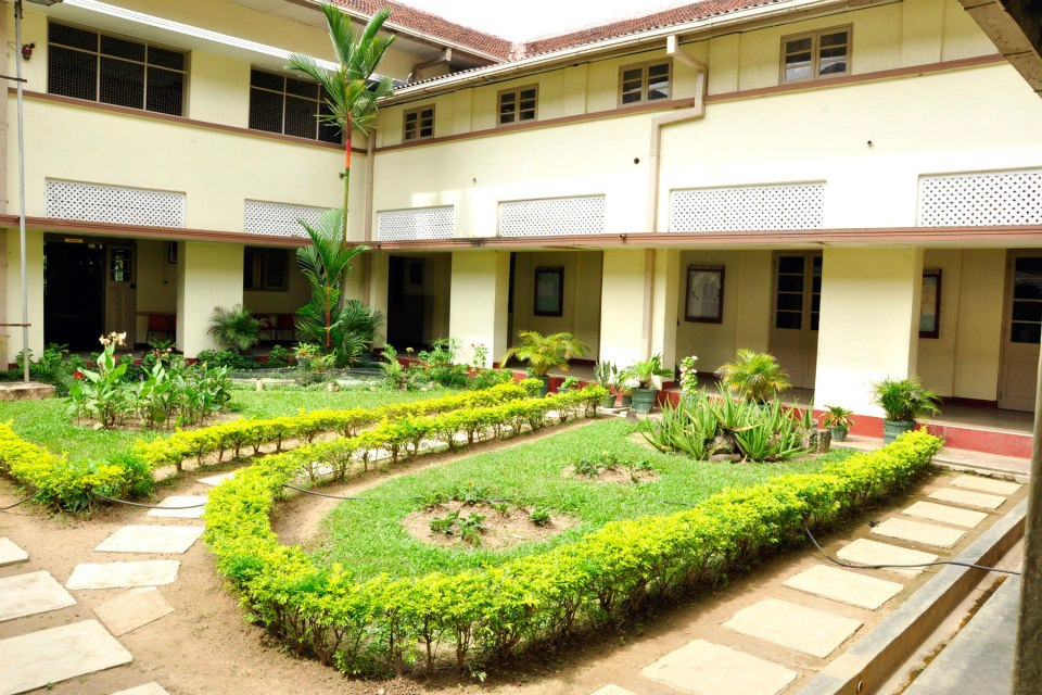 Pushpadana girls' college kandy - school board